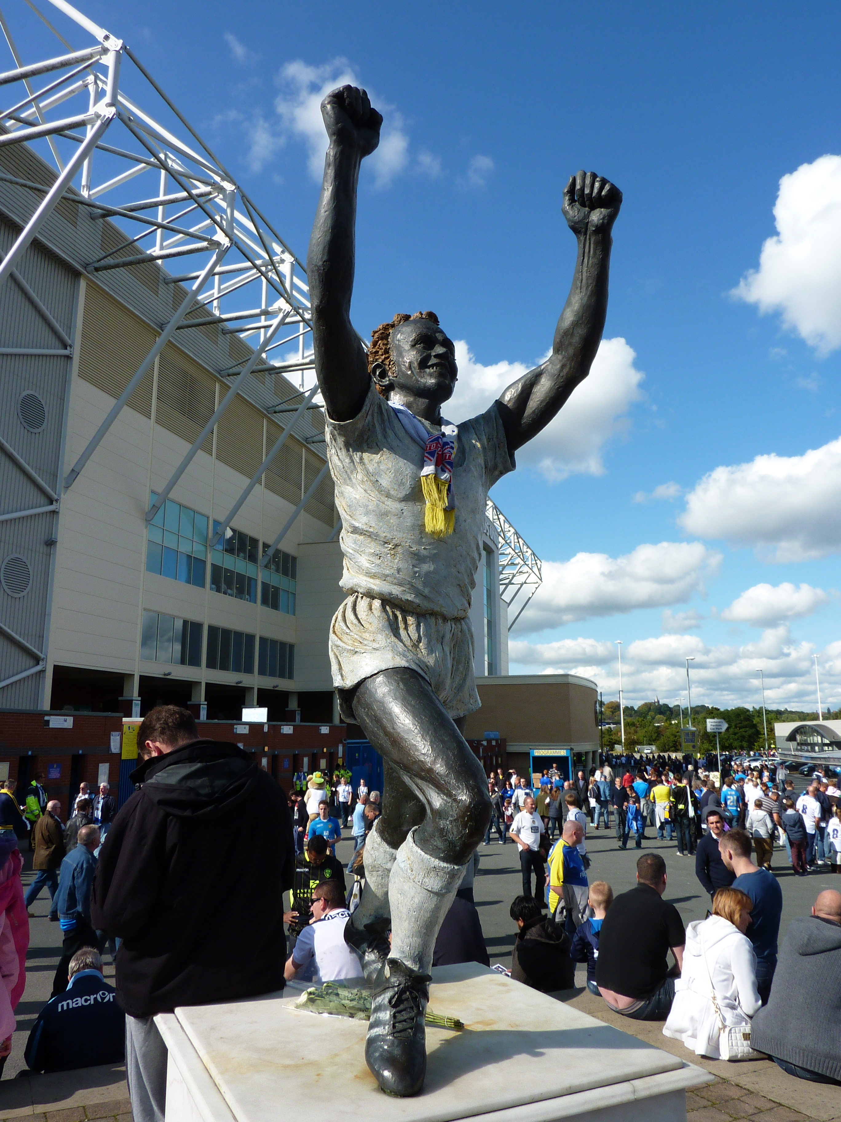 Billy Bremner statue outside Elland Road stadium